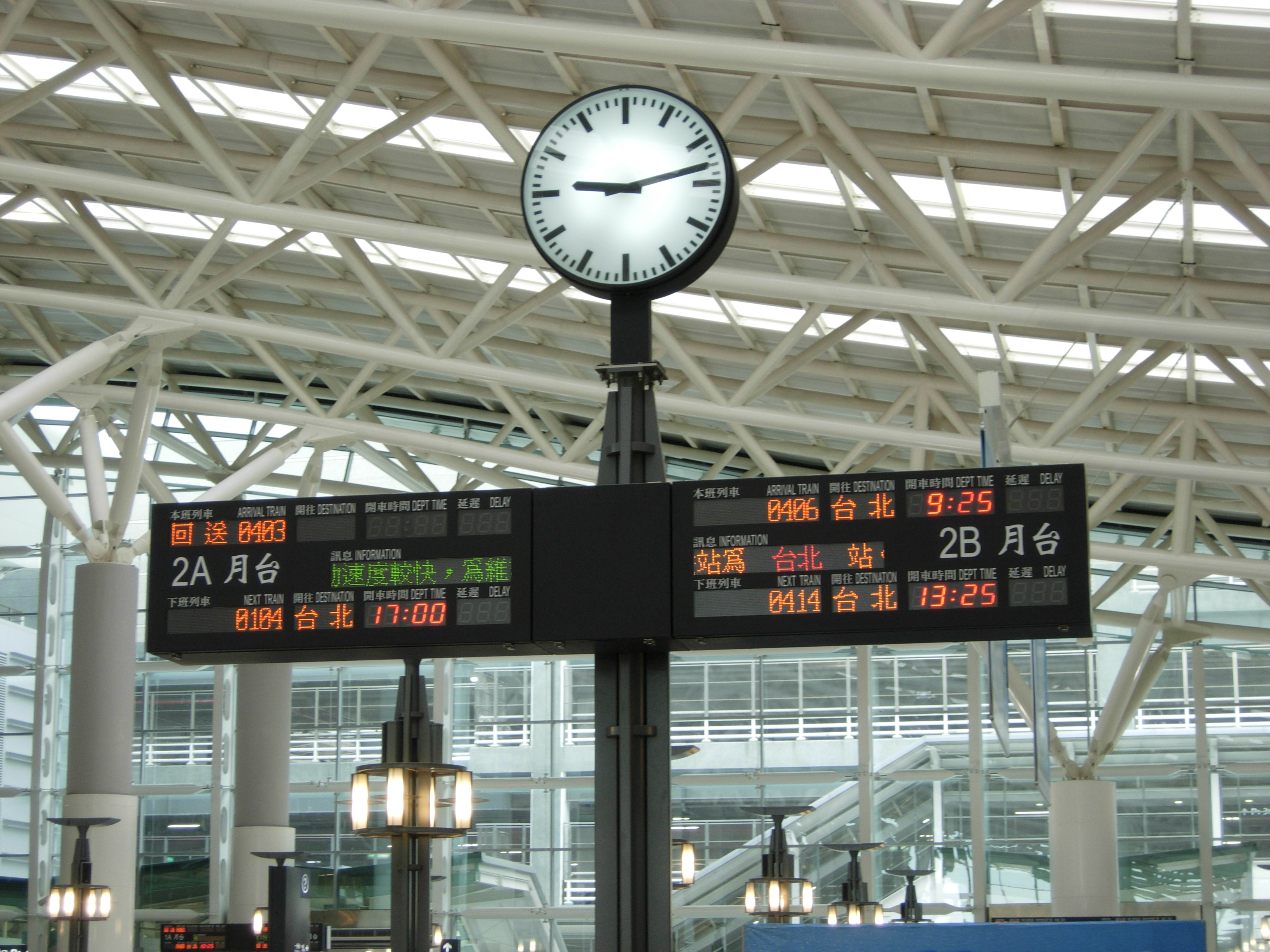 THSR zuoying station clock.